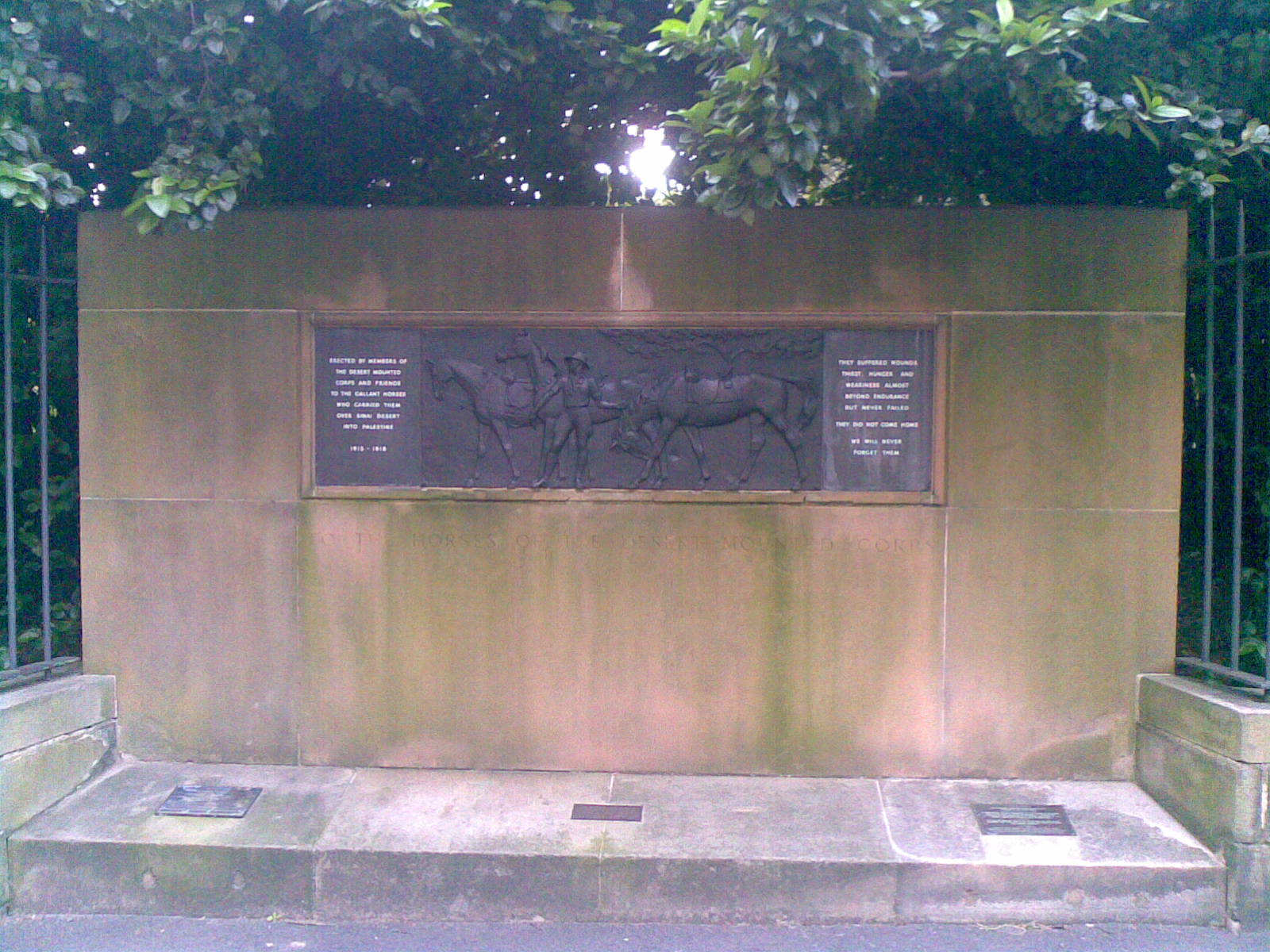 Memorial built for the horses of the ANZAC Desert Mounted Corps which served in the Middle East in World War 1. It is located at the Botanic Gardens, Macquarie St, Sydney, NSW, Australia.